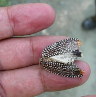 Cerace stipatana, Walker. Lepidoptera - Family Tortricidae - Subfamily Tortricinae - Tribe Ceracini Day flying moth, recorded in the Eastern Himalayas near Pedong, Kalimpong district, North Bengal, India on 09 Oct 2006. Identification courtesy Dr Ian Kitching & Dr Kevin Tuck, Natural History Museum, London. Self-work. AshLin 06:56, 3 November 2006 (UTC)